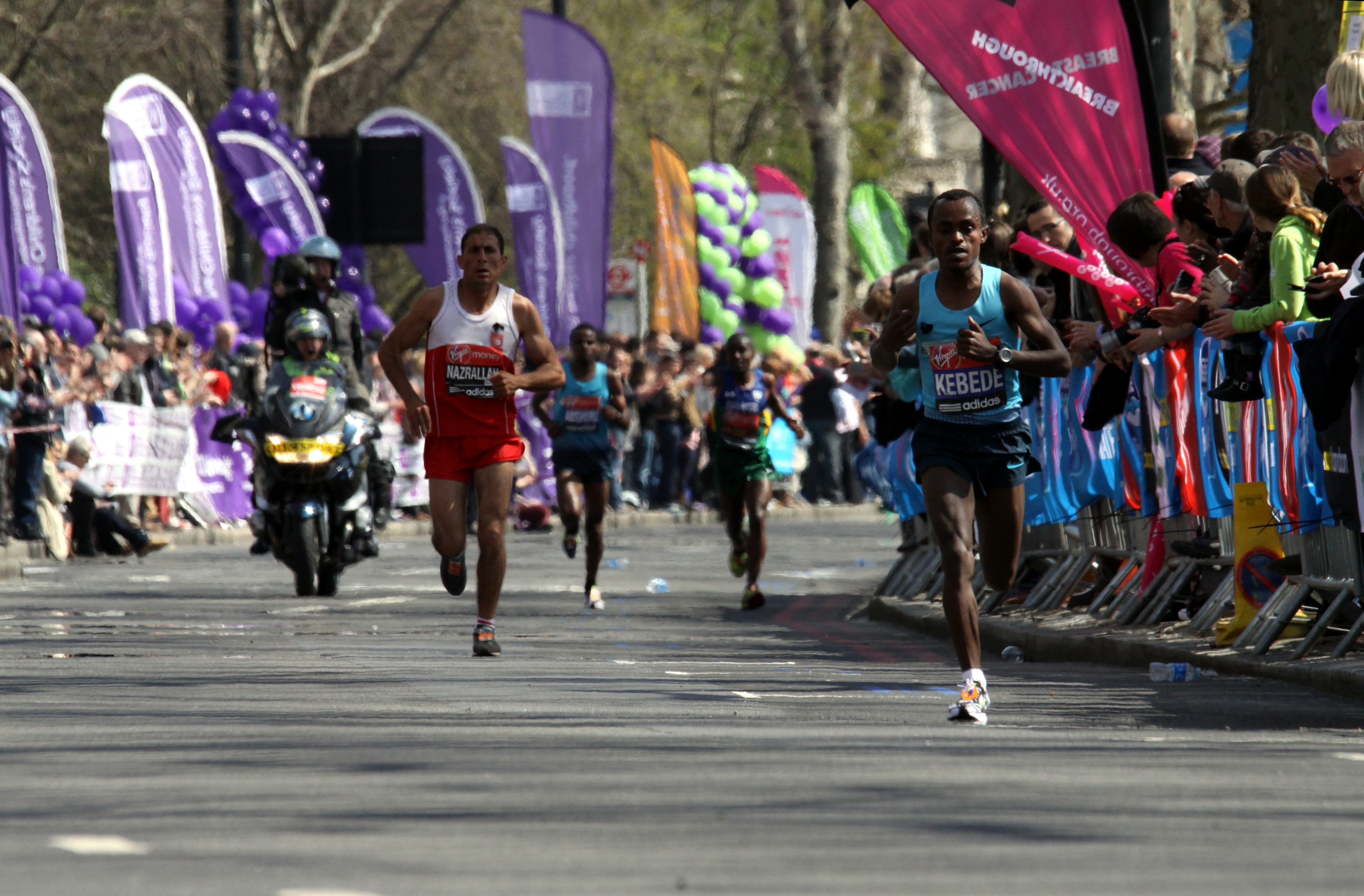 Tsegaye Kebede during 2013 London Marathon, photographed at Victoria Embankment, London, Great Britain.